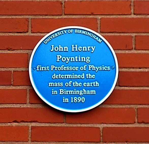 University of Birmingham - Poynting Physics Building - blue plaque to phyicist John Henry Poynting